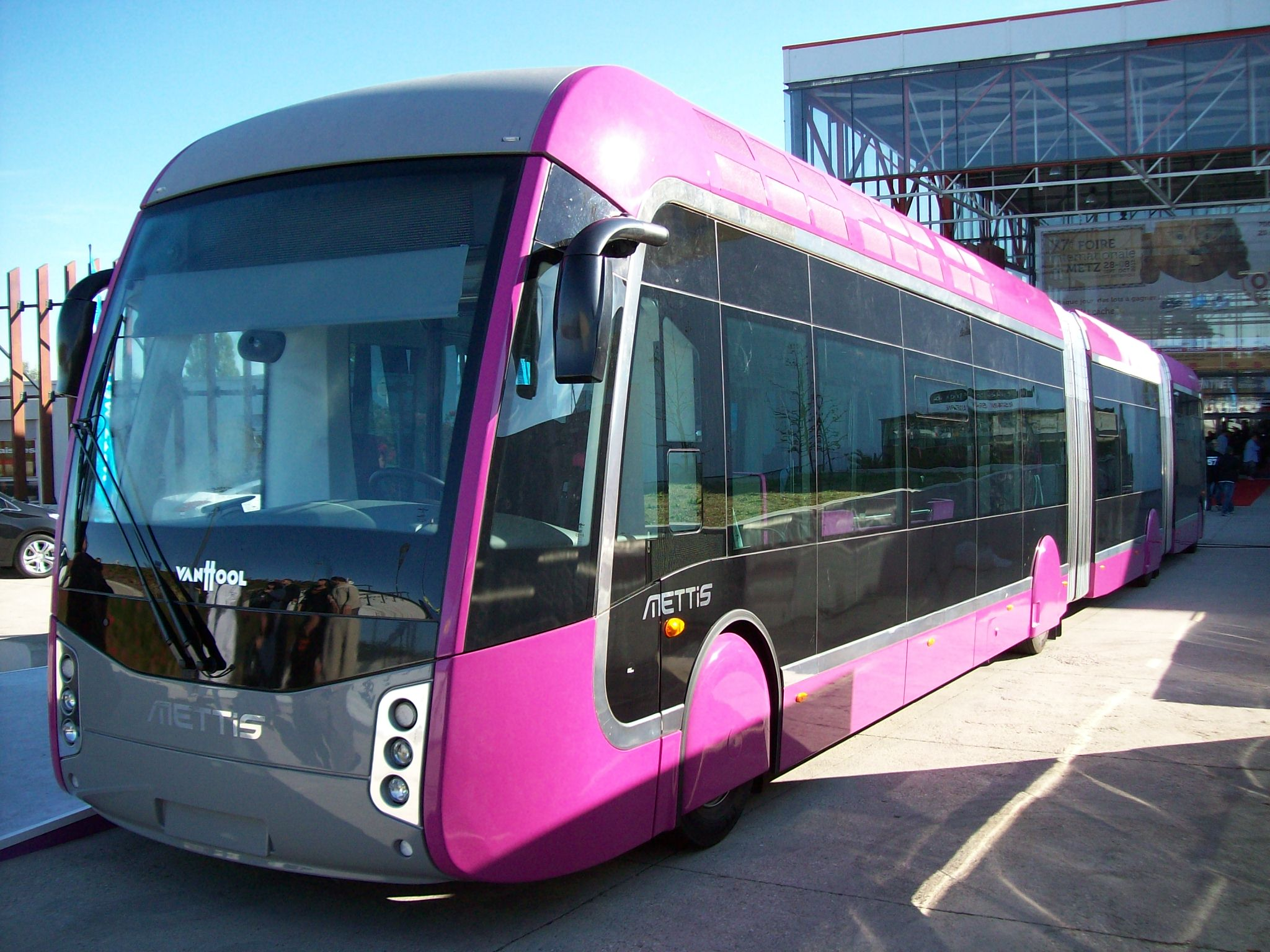 Van Hool ExquiCity 24 bi-articulated hybrid-powered bus in Metz, France, Built 2012, Mettis operator.